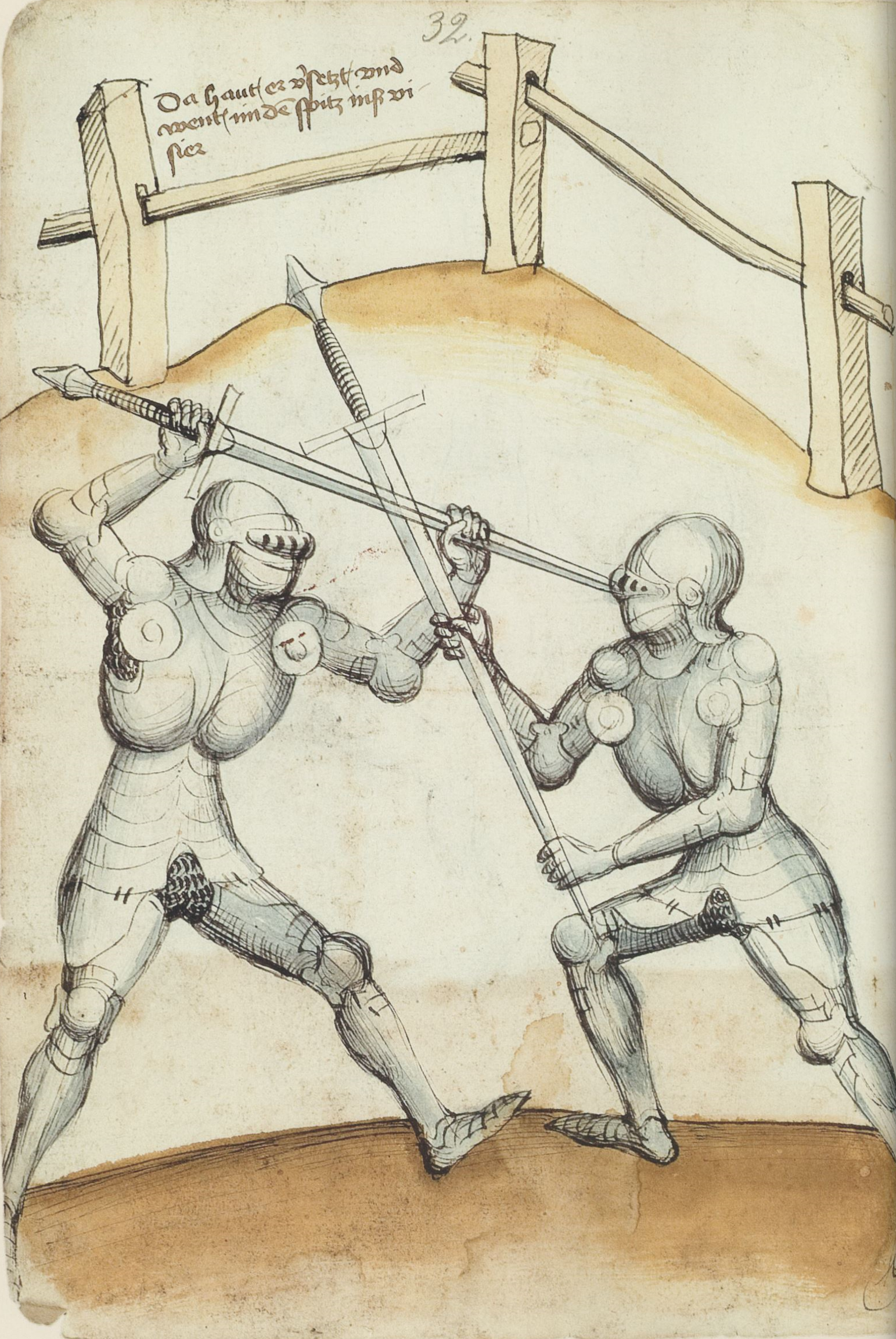 The Ms.XIX.17-3 is a German fencing manual created by Hans Talhoffer some time between 1446 and the creation of the Thott manuscript in 1459. The original currently rests in the private collection of the Königsegg-Aulendorf family in Königseggwald, Germany. This manuscript may possibly have been commissioned by the very Luithold von Königsegg who is featured in several of Talhoffer's works.